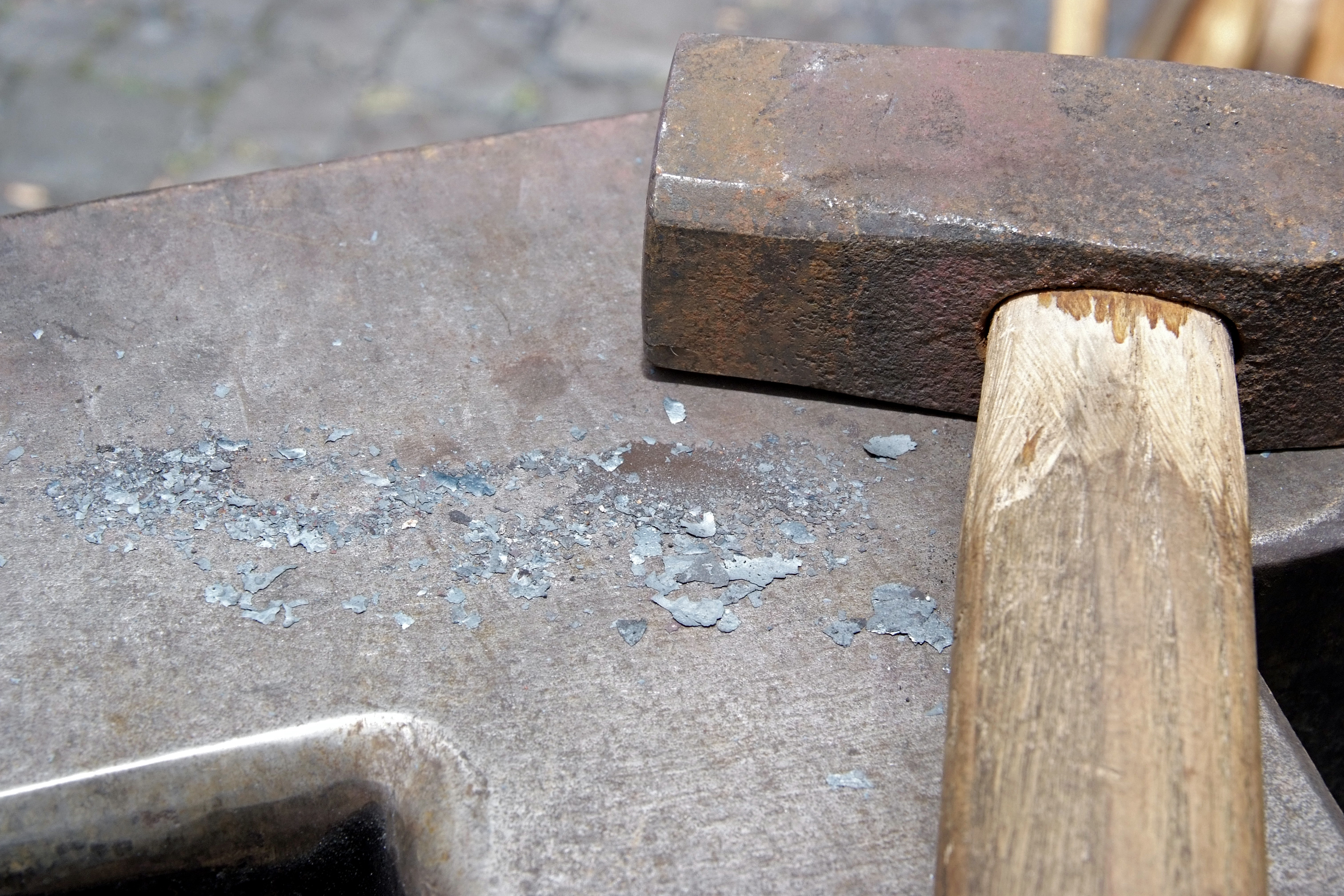 Magnetite (Fe3O4) produced from forging